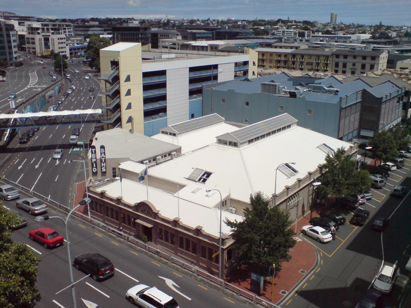 View of the Tepid Baths swimming pools in Auckland City, New Zealand from the nearby Downtown Car Park, looking westwards. New Zealand Historic Places Trust Register number: 7377.